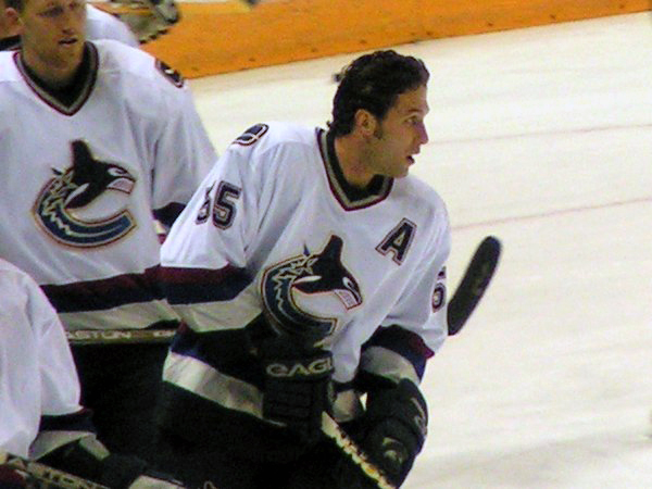 Ed_Jovanovski while warmup in San Jose